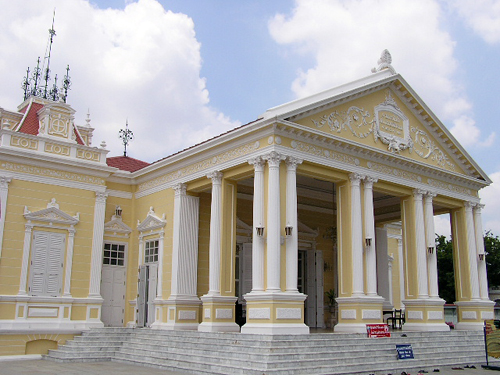 Phra Thinang Varobhas Bimarn Residential Hall within Bang Pa-In Palace, Ayutthaya, Thailand